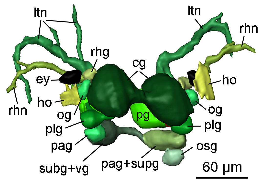 3D reconstruction of dorsal view of central nervous system of of small marine slug Pseudunela viatoris from Fiji.